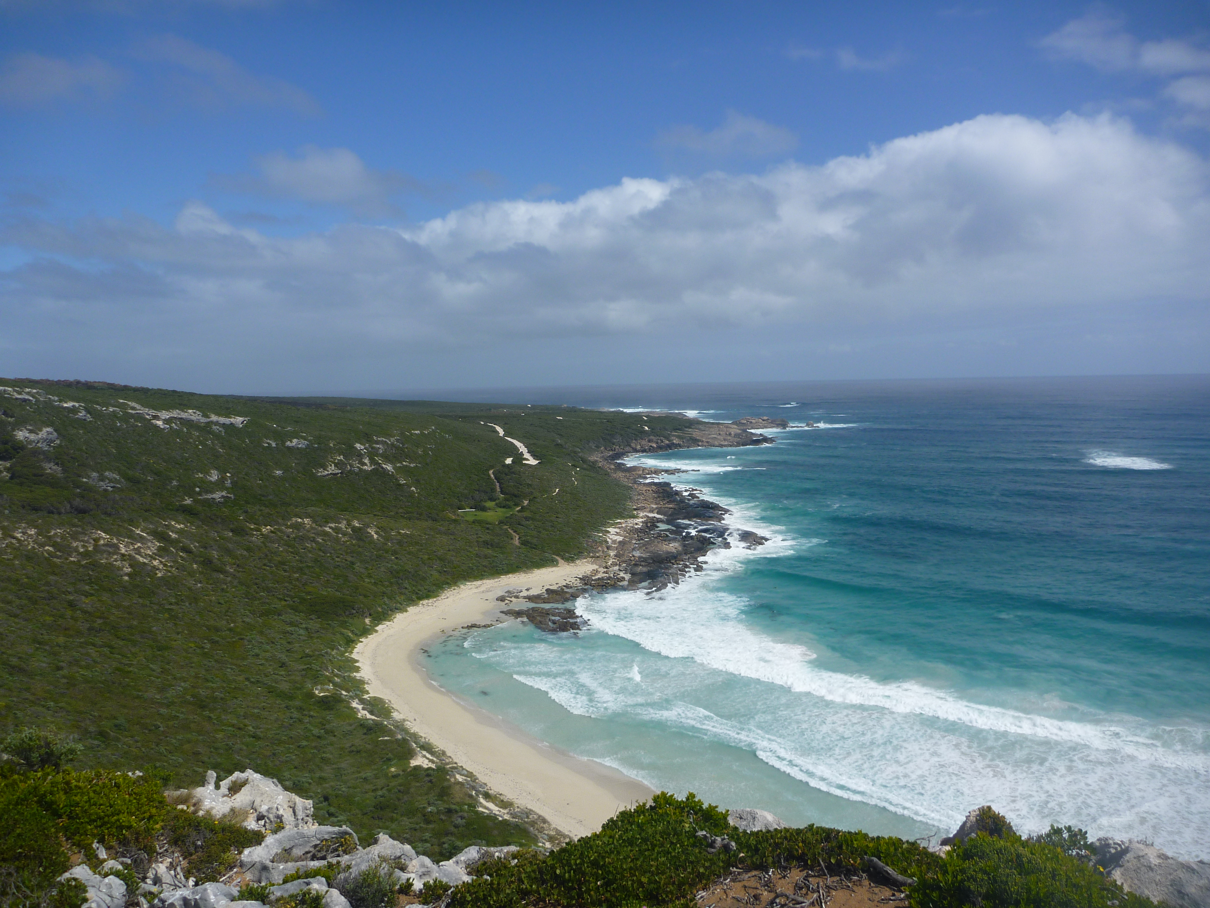 Cape Freycinet photograpjhed from Cliffs above Contos beach on Cape to Cape track